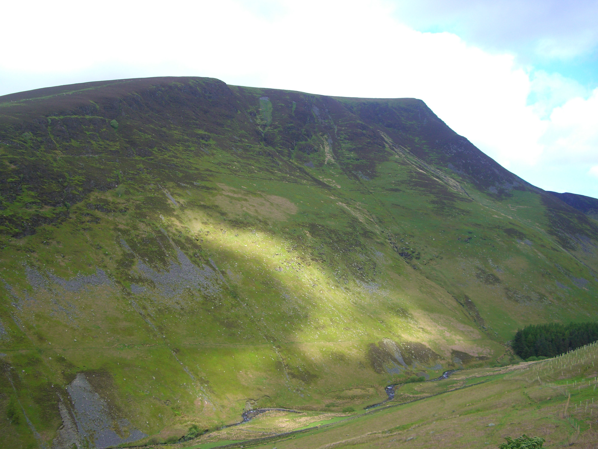 Lonscale Fell in the English Lake District seen from the valley of the Glenderaterra River.